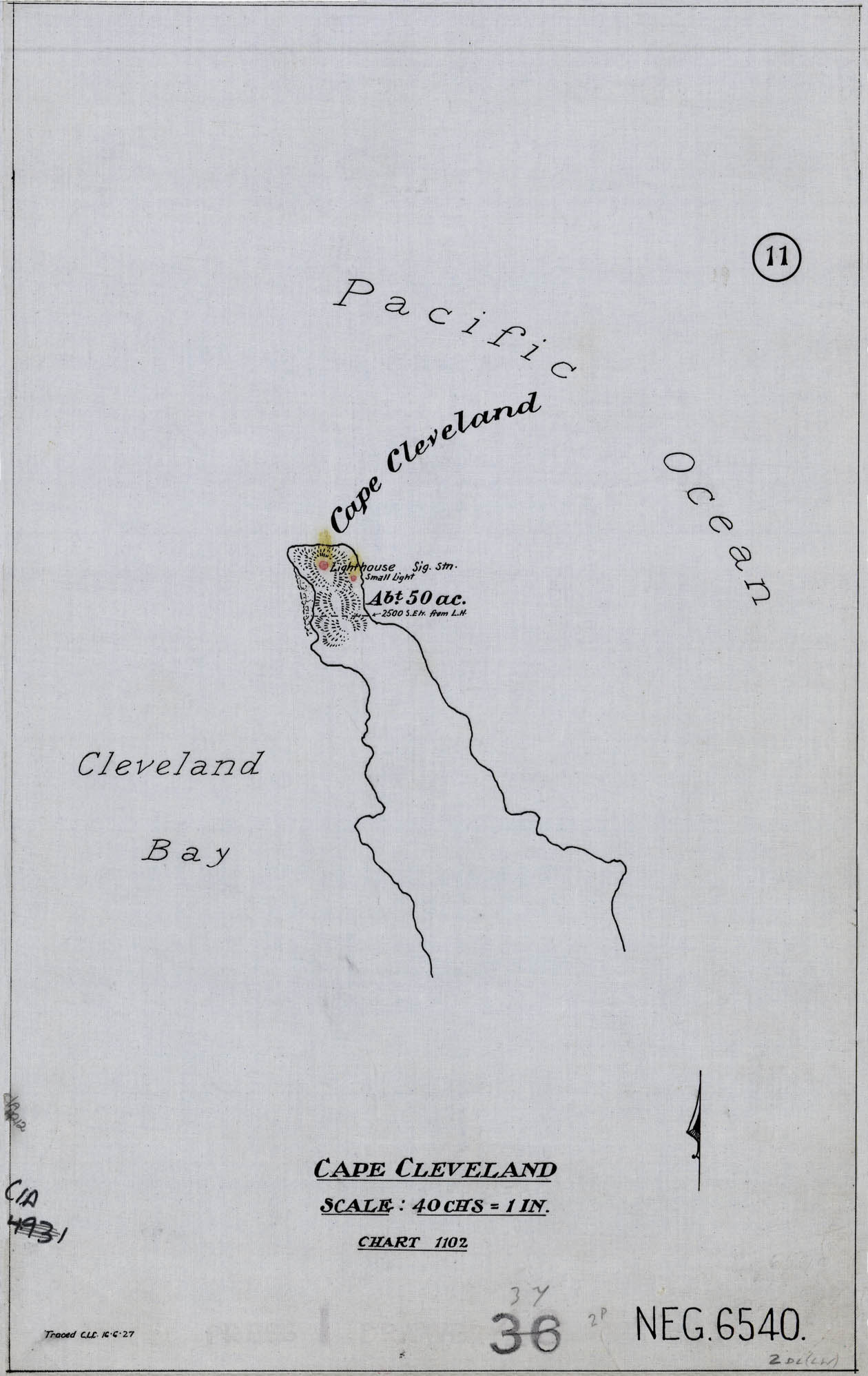 Cape Cleveland - Plan, 1927